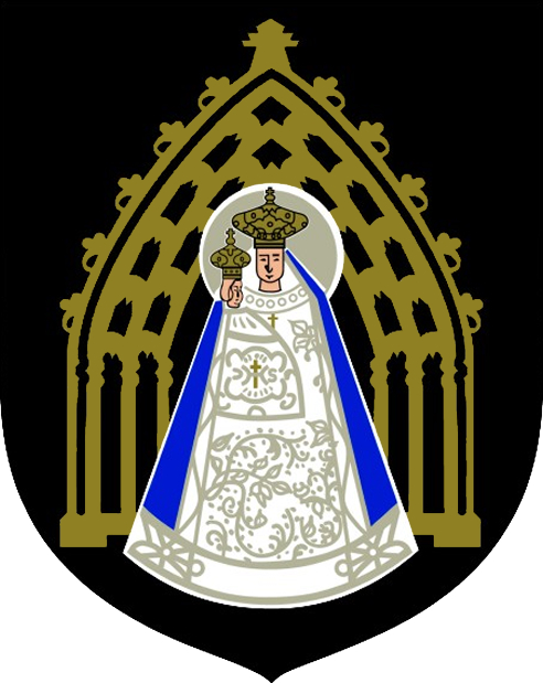 The Mariazell coat of arms, taken from the locomotive of same name on the Mariazellerbahn